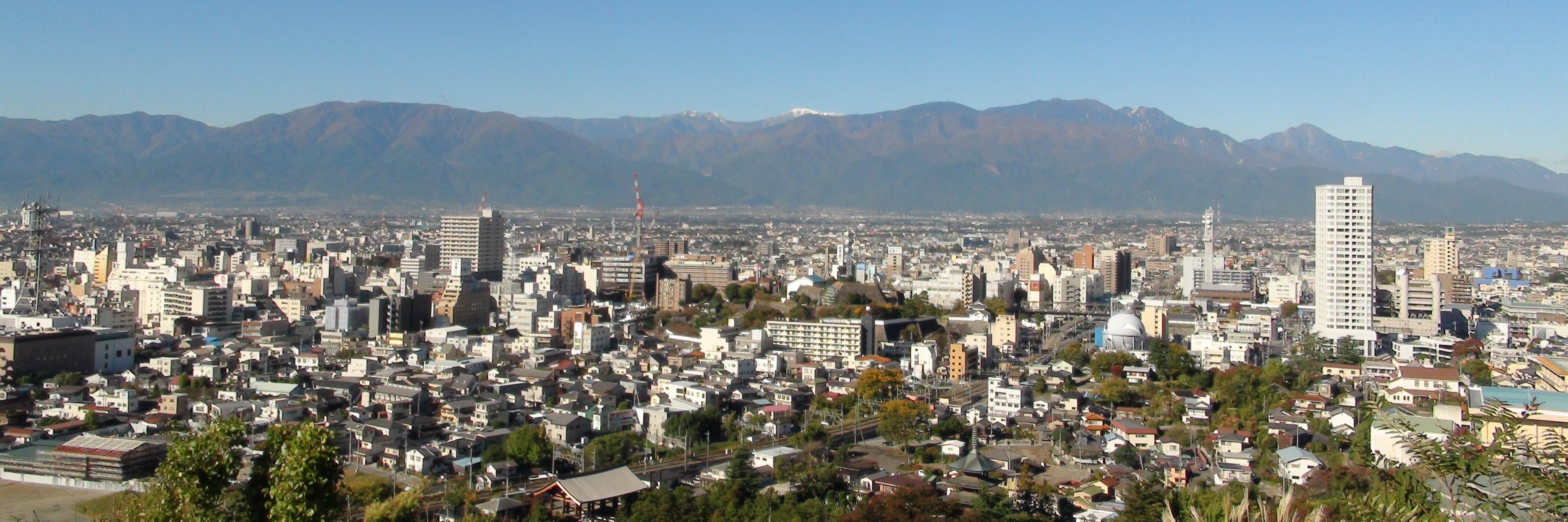 It is a view of Minami-Alps and Kofu town from Mt. Atago